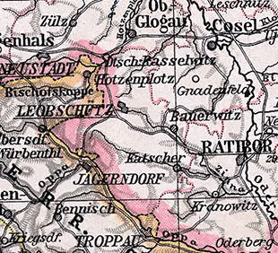 Detail from a map of Silesia.